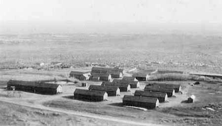 Camp of the Civilian Conservation Corps at Pipe Spring National Monument, Arizona